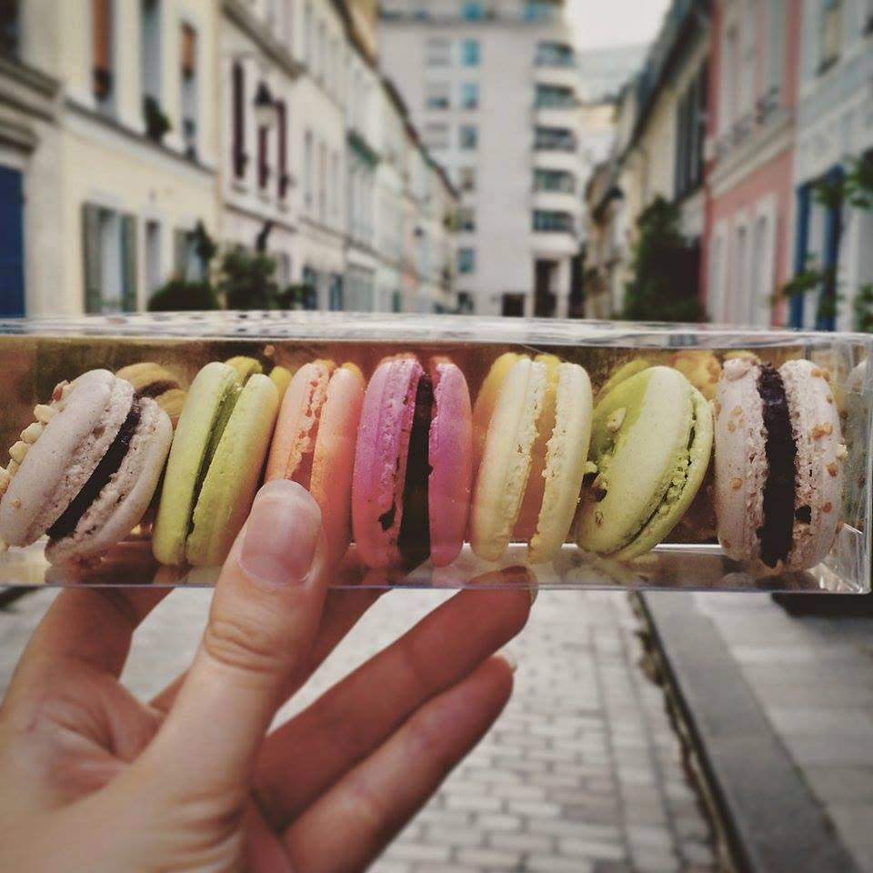 Aquafaba vegan colourful macarons